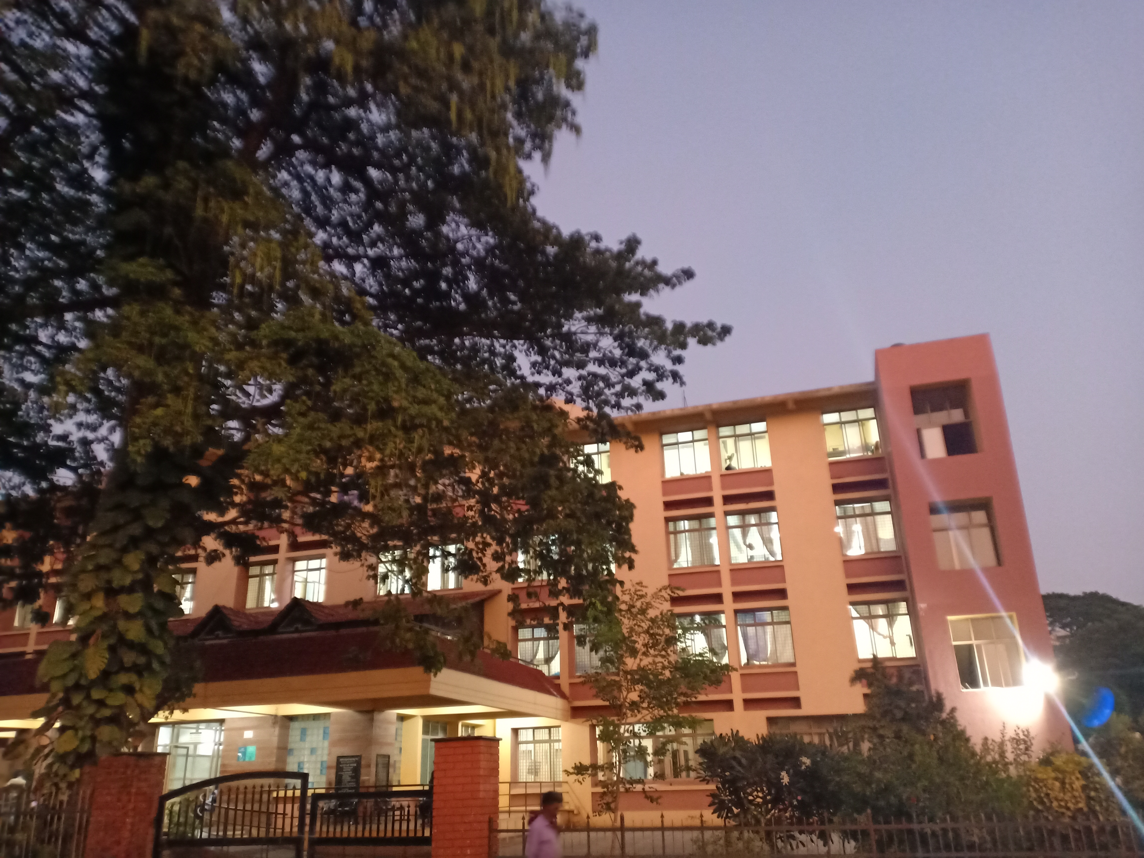 District Leprosy Office at Attavar in Mangalore - 1